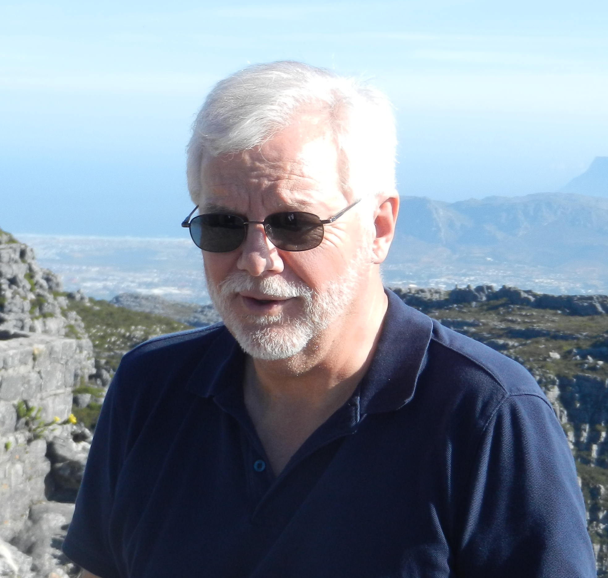 John Agnew, Table Mountain South Africa